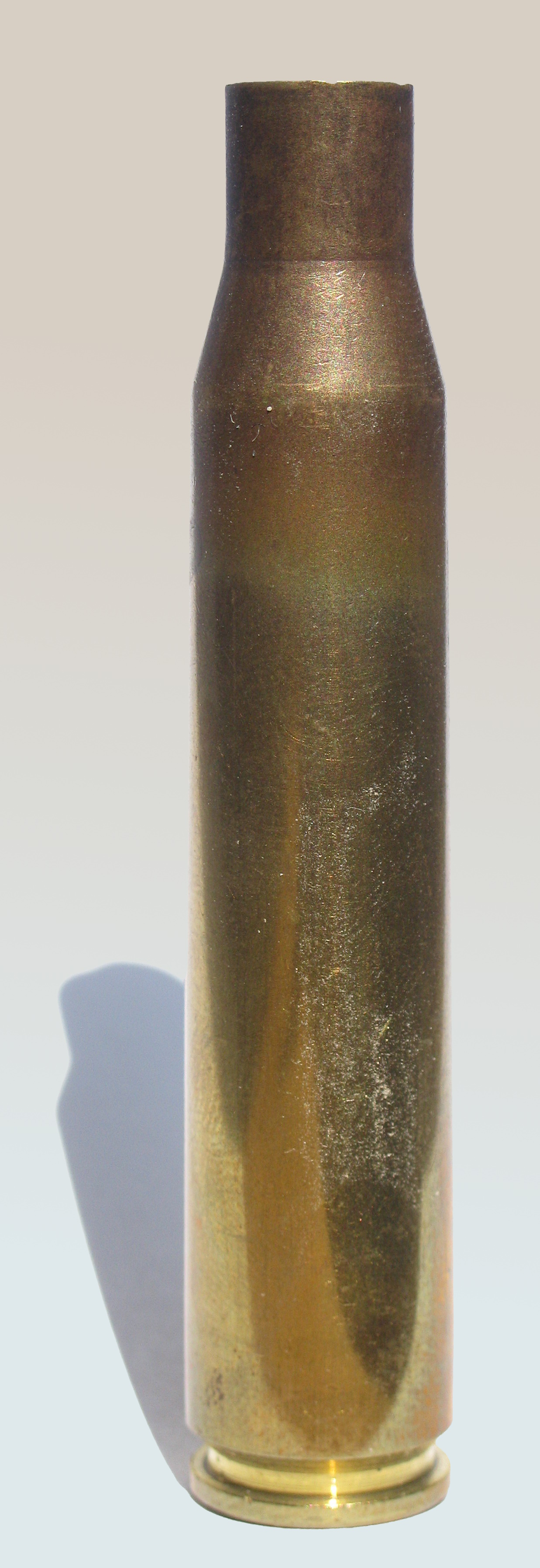 side view of a 8×68mm S rifle cartridge